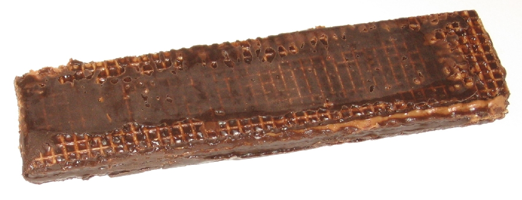 Chocolate candy